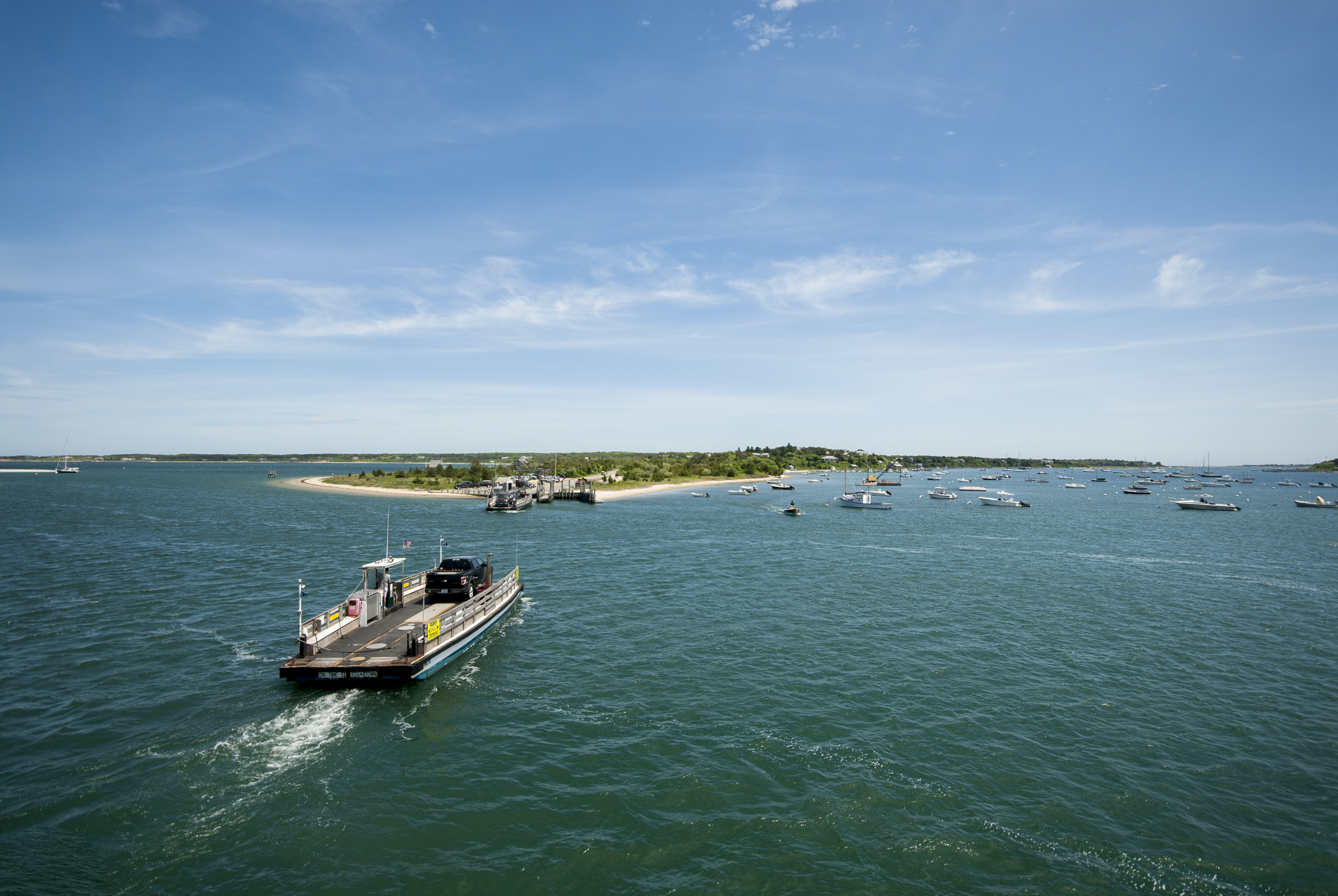 The On Time II (foreground), shuttling passengers between mainland Martha's Vineyard and Chappaquiddick, in Edgartown, Massachusetts.